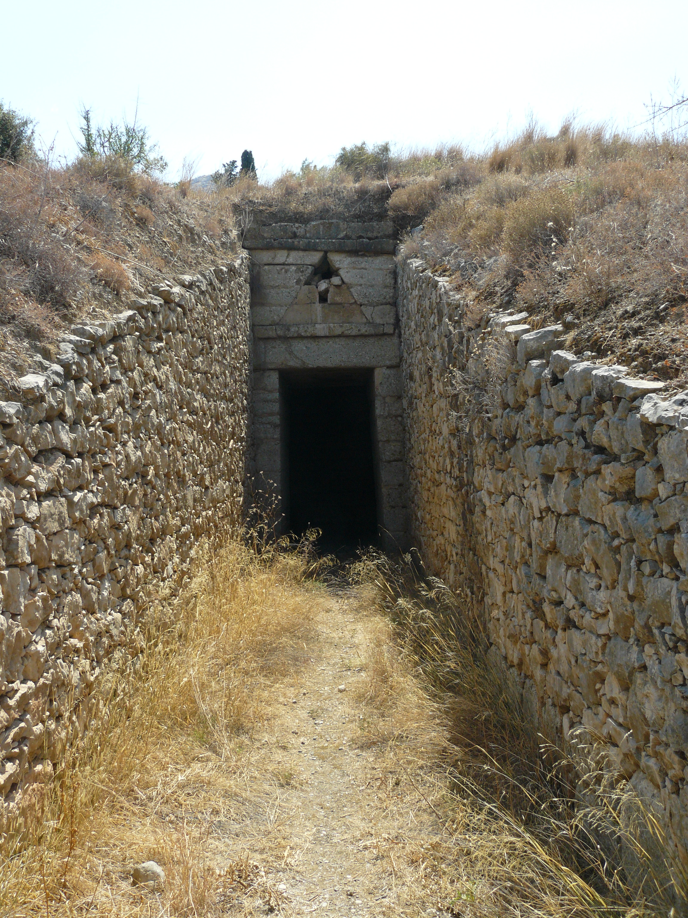 Mycenae: Dromos and door of the tomb of the genii.